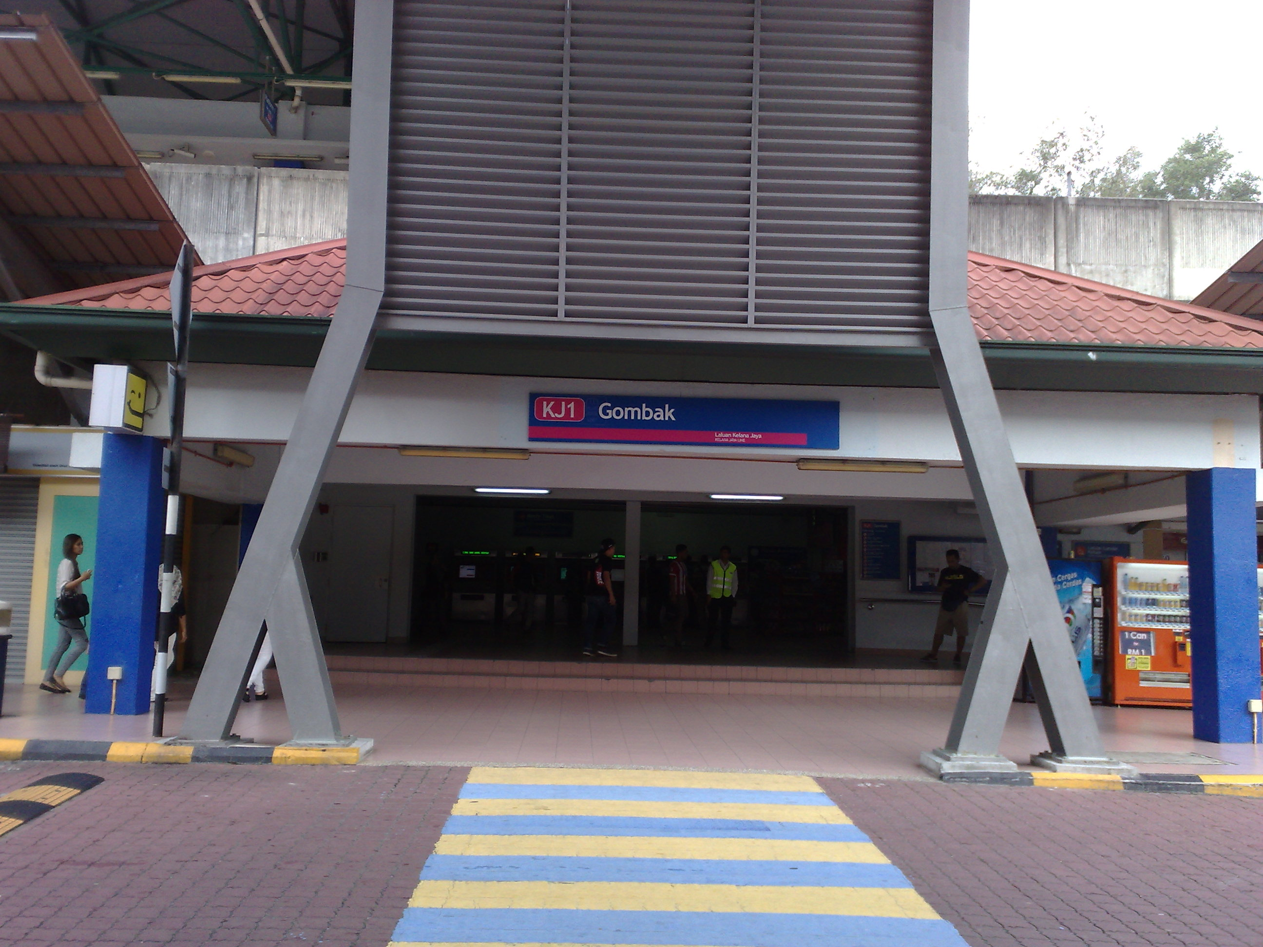 Gombak LRT - 3